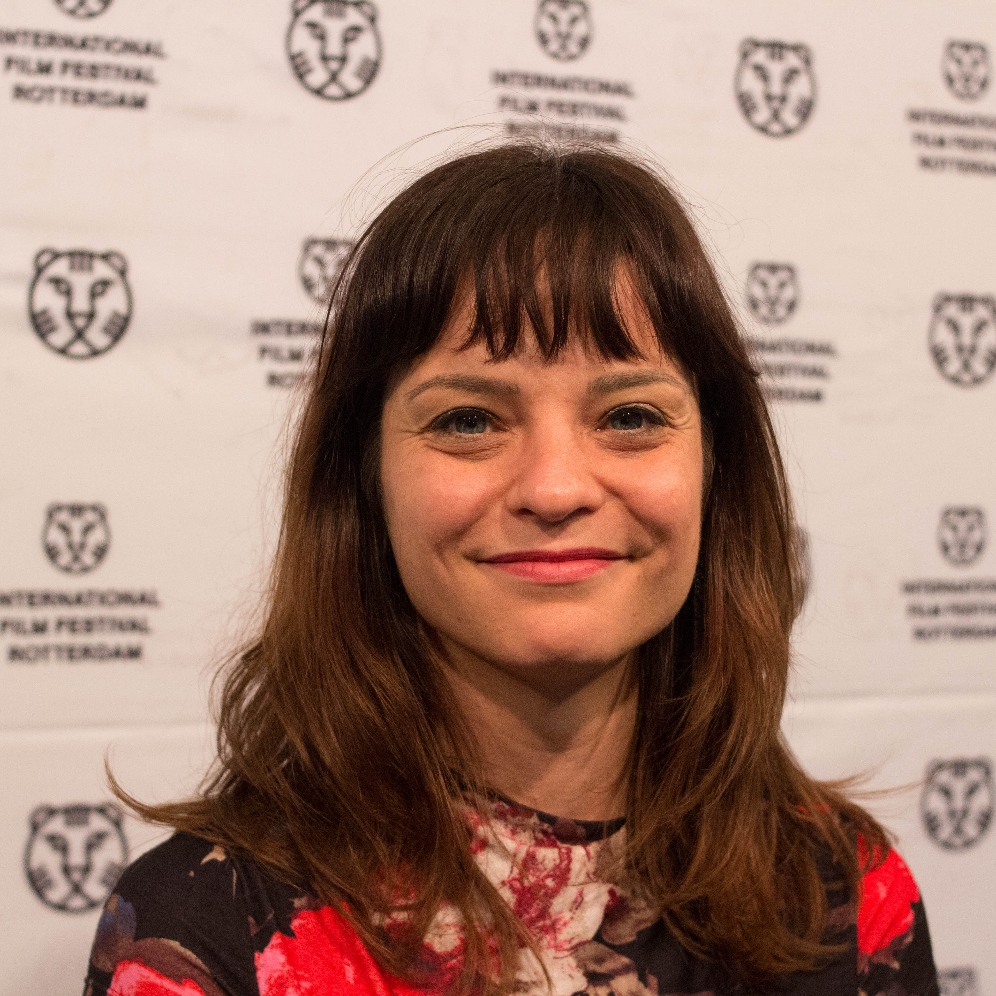 Penny Lane at the IFFR 2018 to promote The Pain of Others